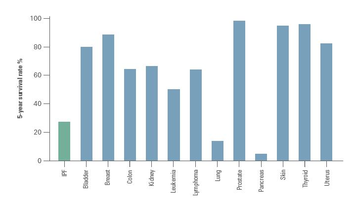 Comparison of the 5-year survival rate for Idiopathic Pulmonary Fibrosis (IPF) and common malignancies.